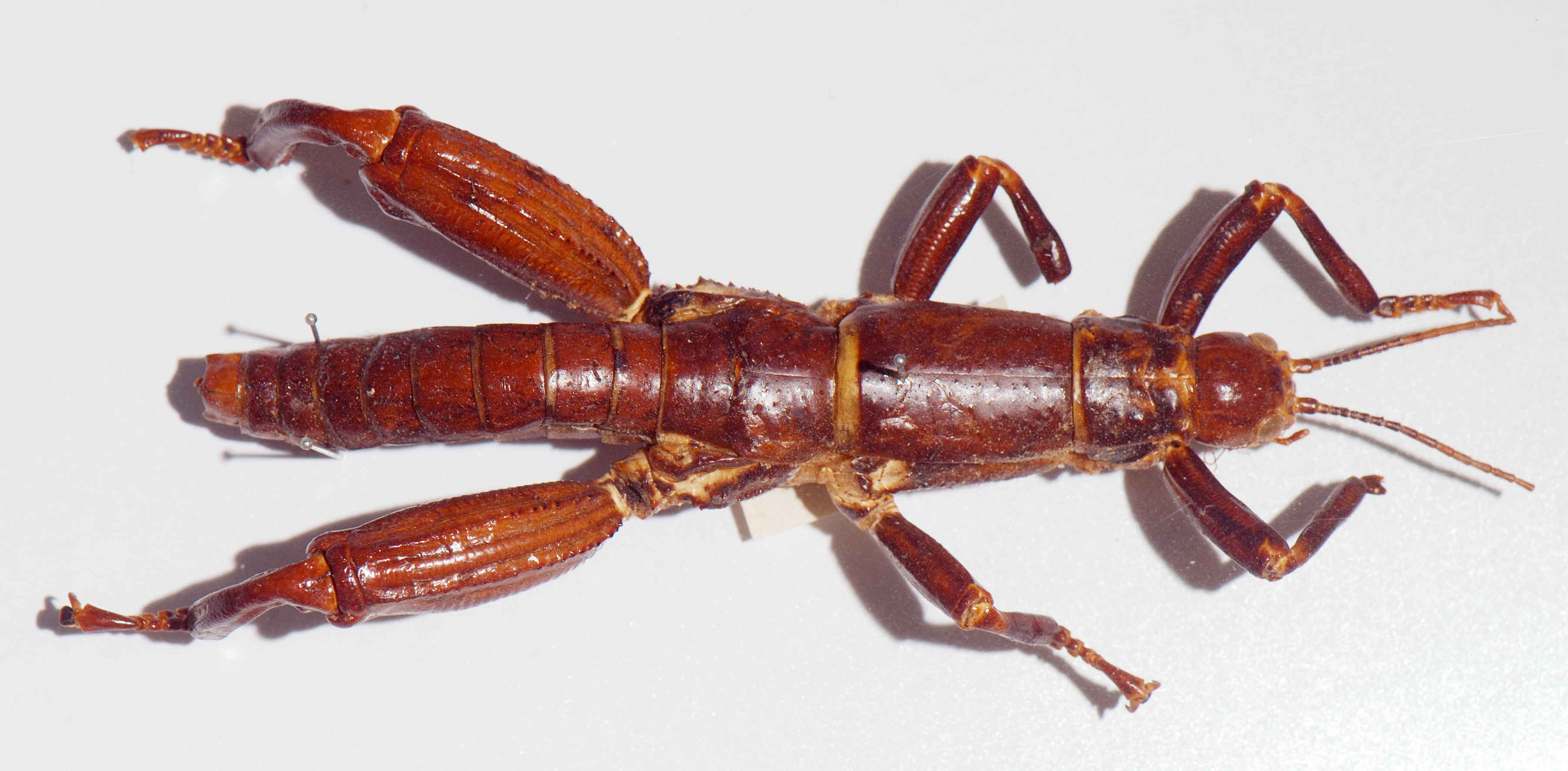 Lord Howe Island stick insect (Dryococelus australis) at Melbourne Museum.